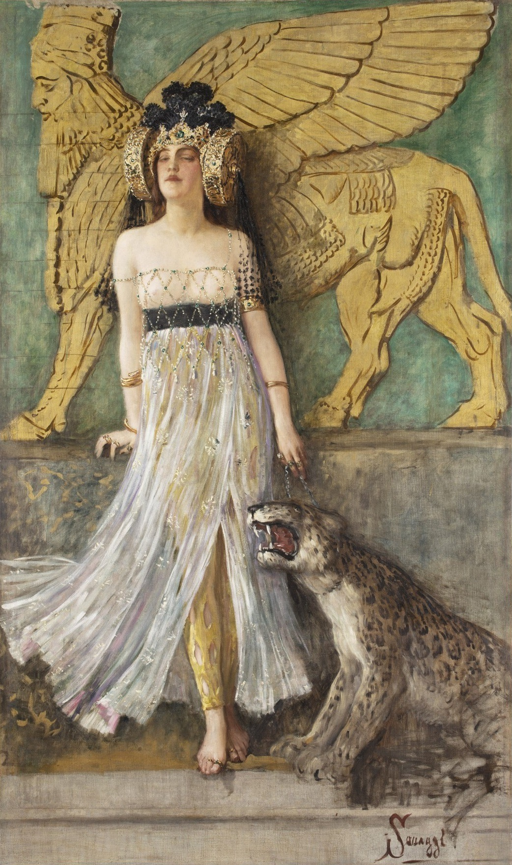 Great Semiramis, Queen of Assyria / Private Collection